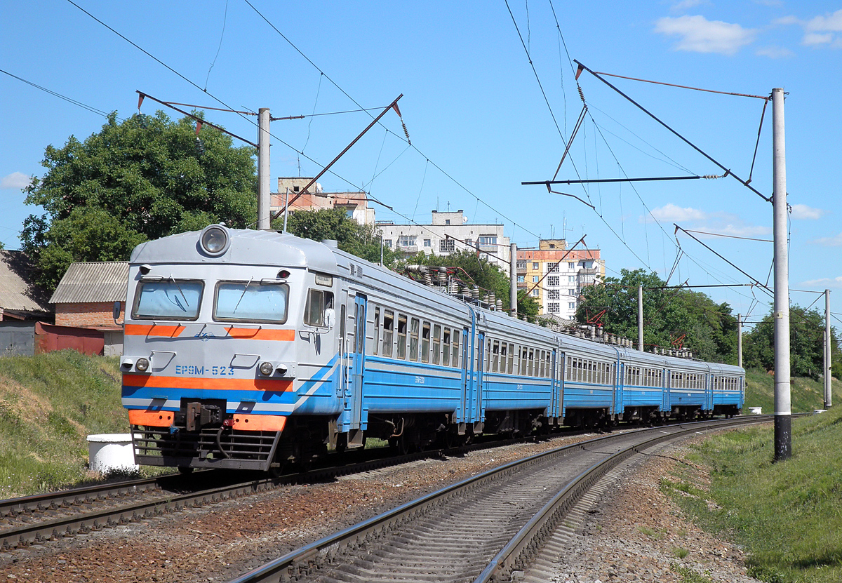 EMU train ER9M-523, Lubmy, Ukraine, 2011